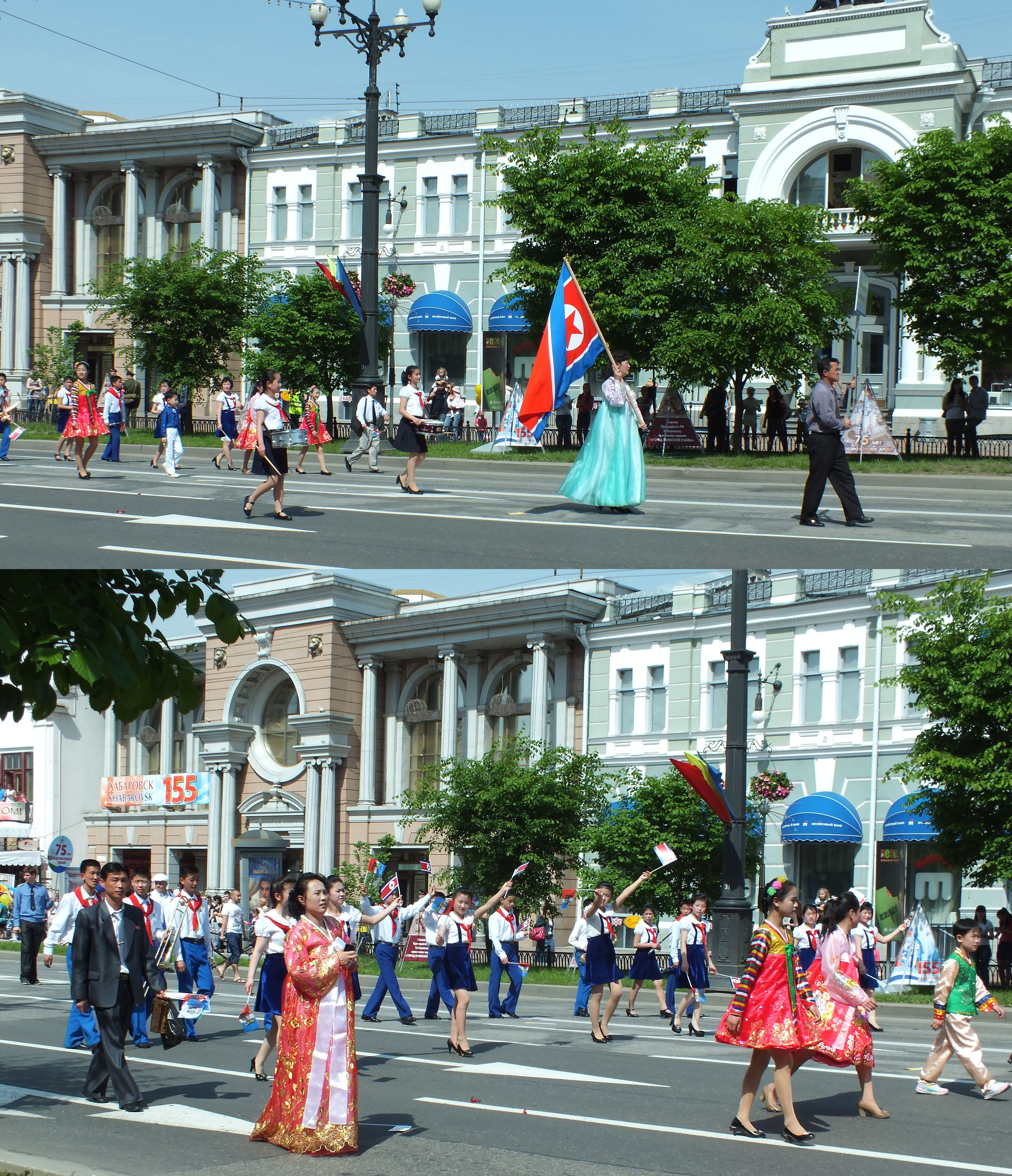 Khabarovsk